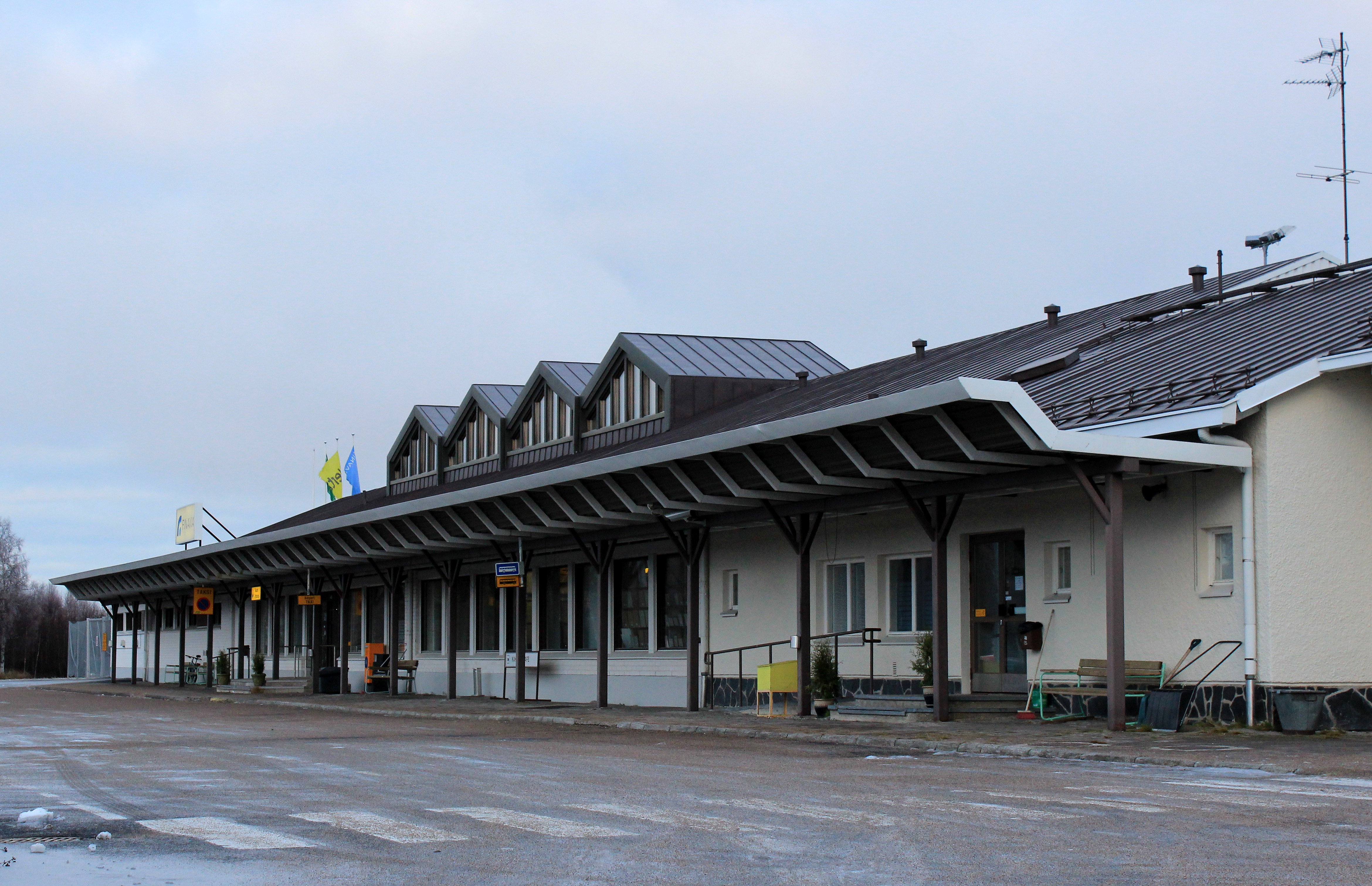 The airport terminal of the Kemi-Tornio aiport.